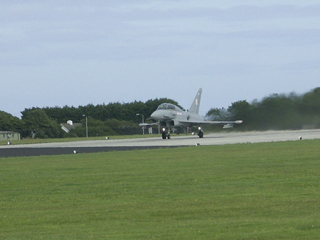 A Eurofighter Typhoon awaits take-off clearance at the end of runway 30, RNAS Culdrose. RNAS Culdrose is Western Europe's largest military helicopter operating base.